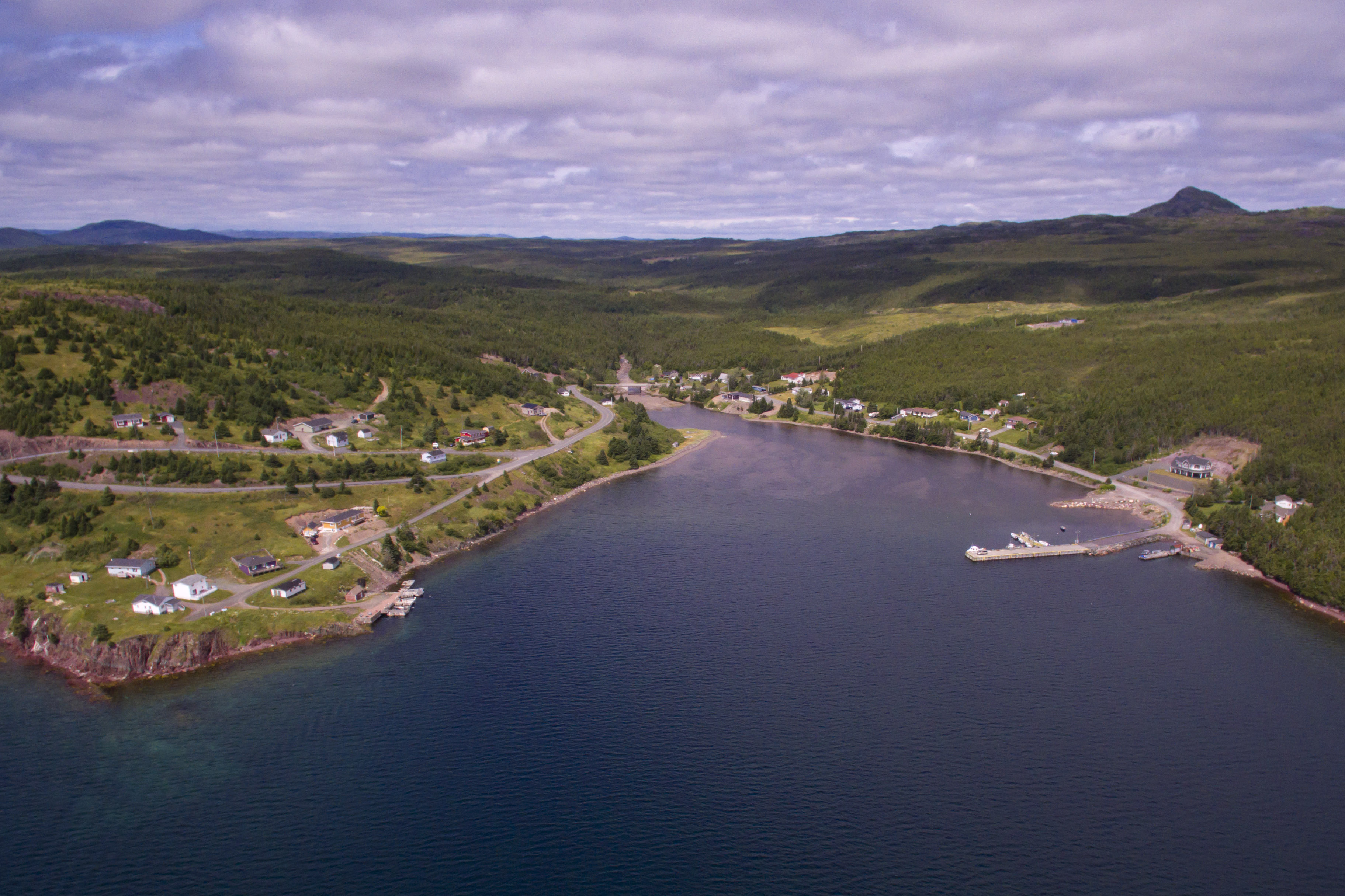 Aerial view of Sunnyside, Newfoundland, overlooking Centre Cove